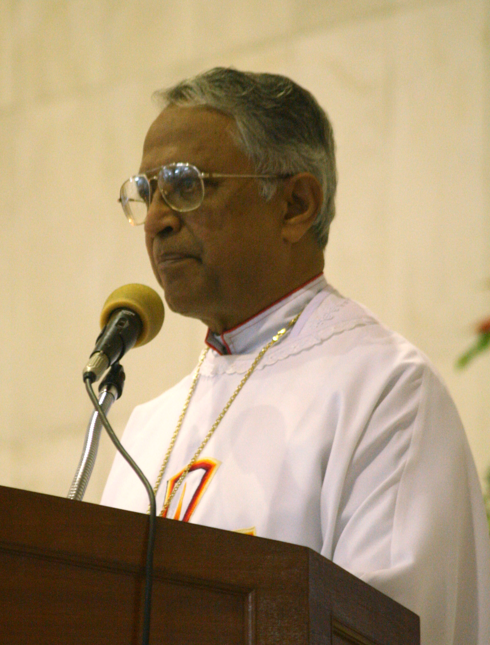 Murphy Nicholas Xavier Pakiam (6 December 1938-) has been the Roman Catholic Archbishop of the Metropolitan Archdiocese of Kuala Lumpur (Latin: Archidioecesis Kuala Lumpurensis), Malaysia, since 2003.